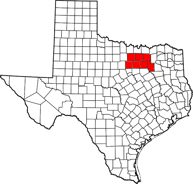 By September 2, 2011, the 2011 wildfires have burned over 3,549,000 acres in Texas. Visualized, this equates to the area of Parker, Wise, Tarrant, Denton, Collin, Dallas, and Kaufman counties combined.